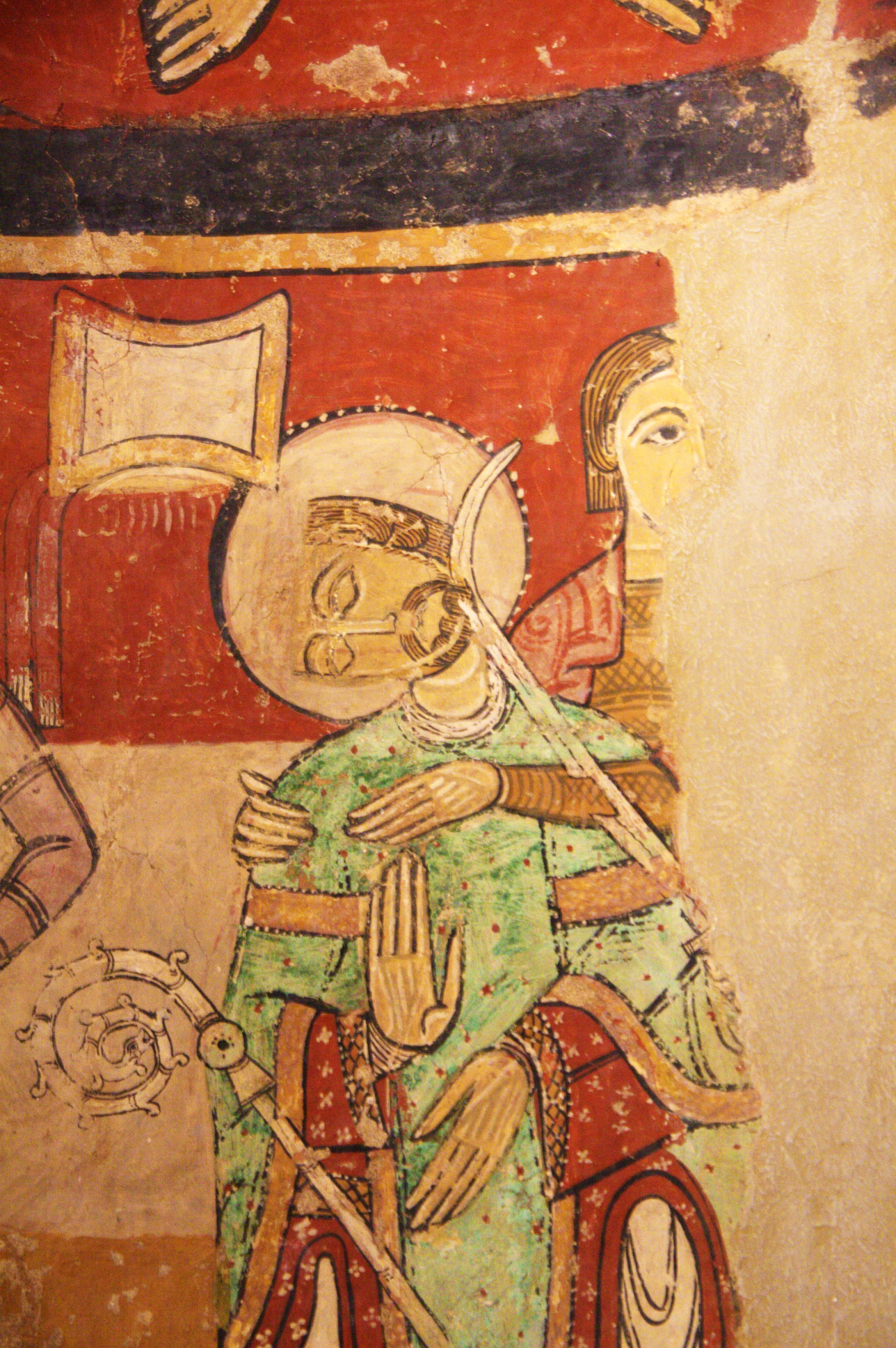 St. Thomas Becket consagrations, death and burial, at wall paintings in Santa Maria de Terrassa (Terrassa, Spain), romanesque frescoes, ca. 1180